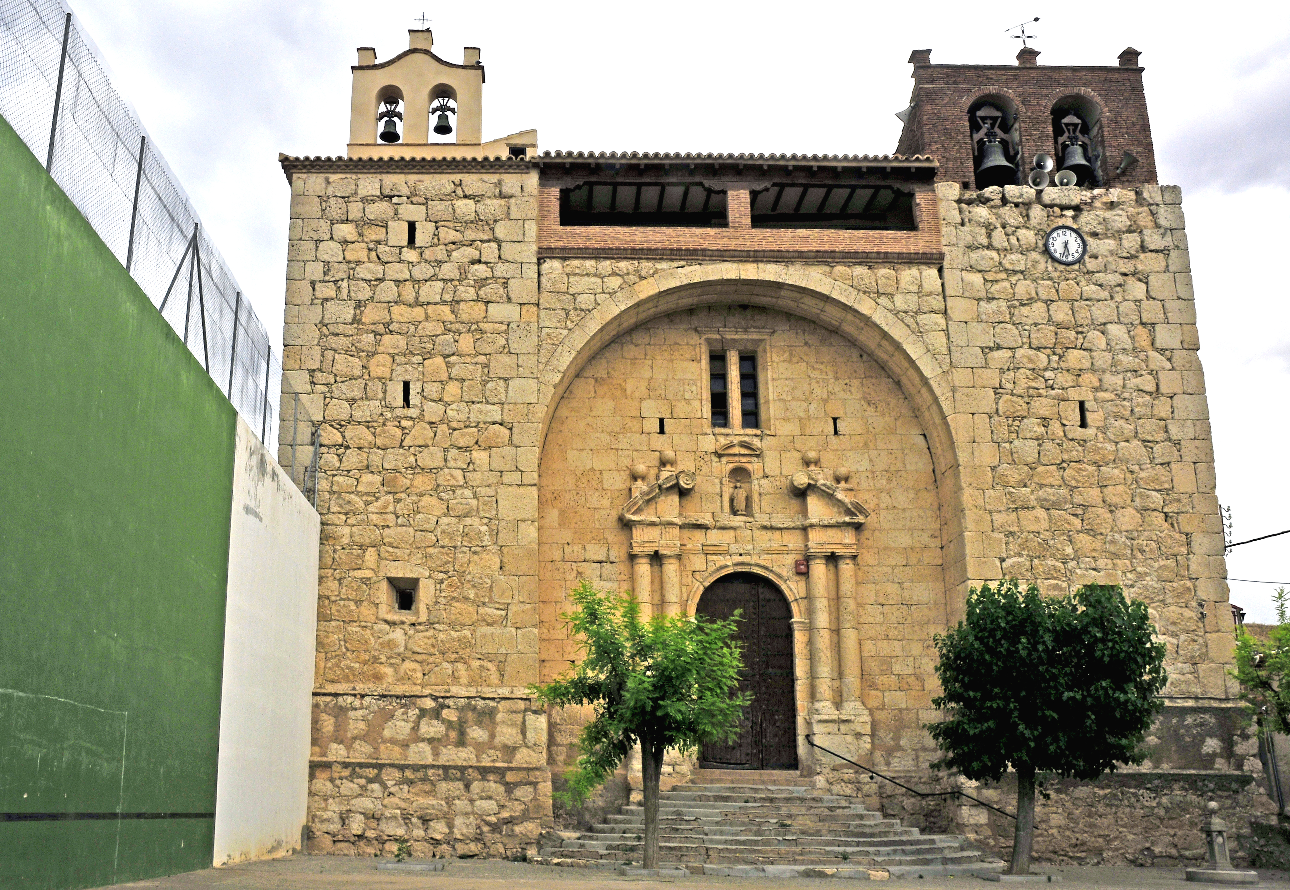 The Parish Church. Langa del Castillo, Zaragoza, Aragon, Spain